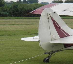 At Itakura Gliderport, Gunma, Japan. Aerotow rope is attached to the tail release mechanism of a Husky A-1 towplane.